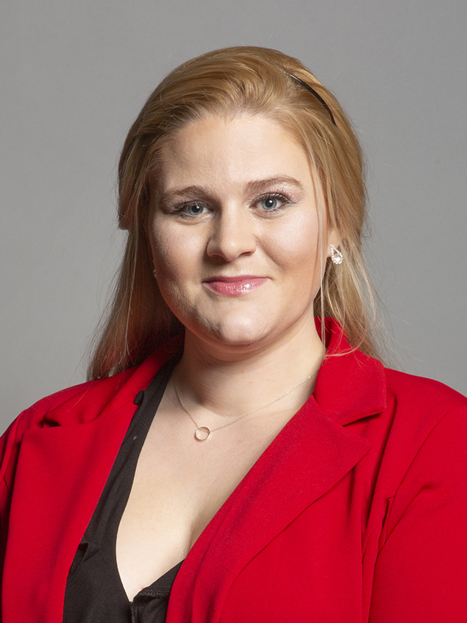 Official portrait of Alex Davies-Jones MP 3×4 portrait of Alex Davies-Jones